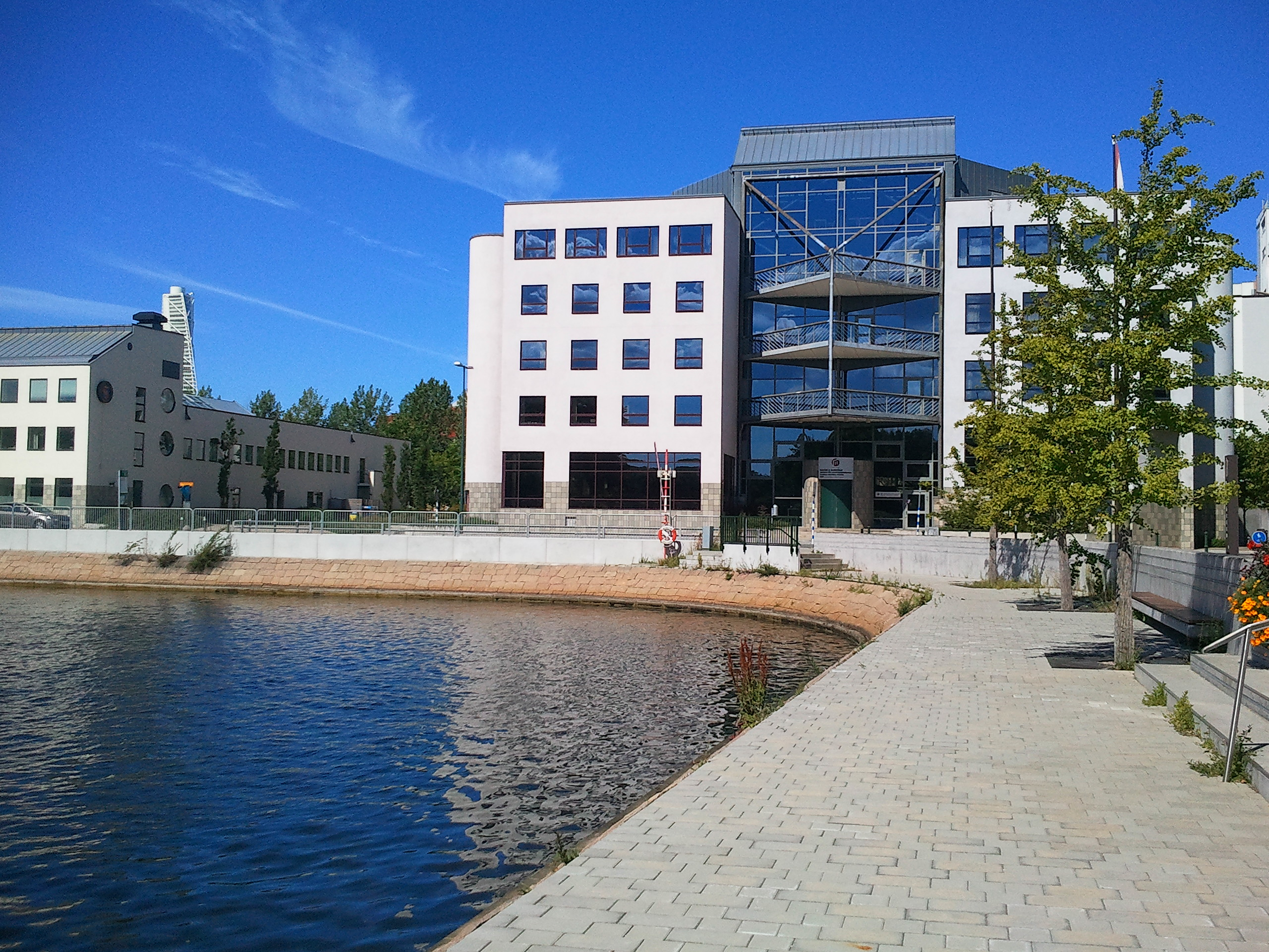 Gäddan, building of political science and language studies, part of Malmö University.